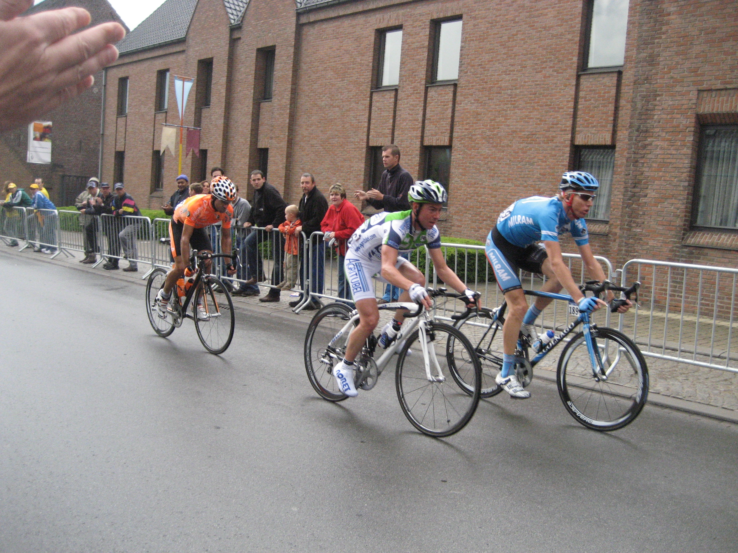 Cédric Hervé (Agritubel), Ruben Perez (Euskaltel) and Marcel Sieberg (Milram) during the second stage of the 2007 Tour de France.